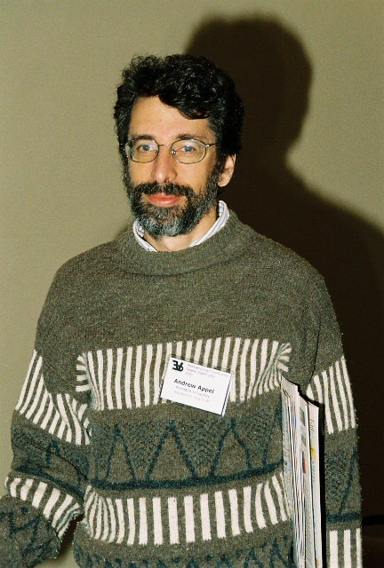 Andrew Appel presents "A List-machine Benchmark for Mechanized Metatheory" by himself and Xavier Leroy